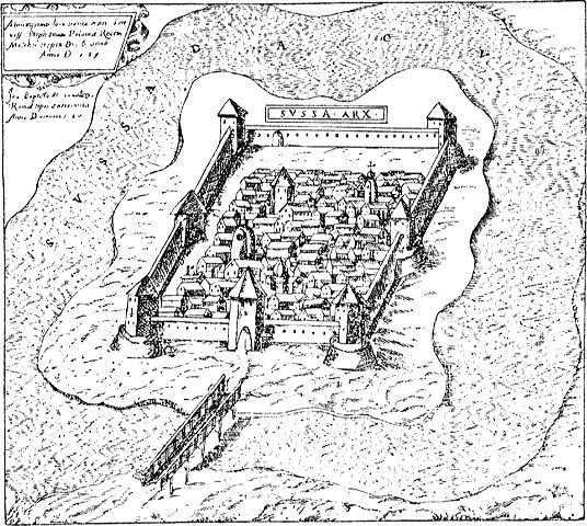 Susha Castle